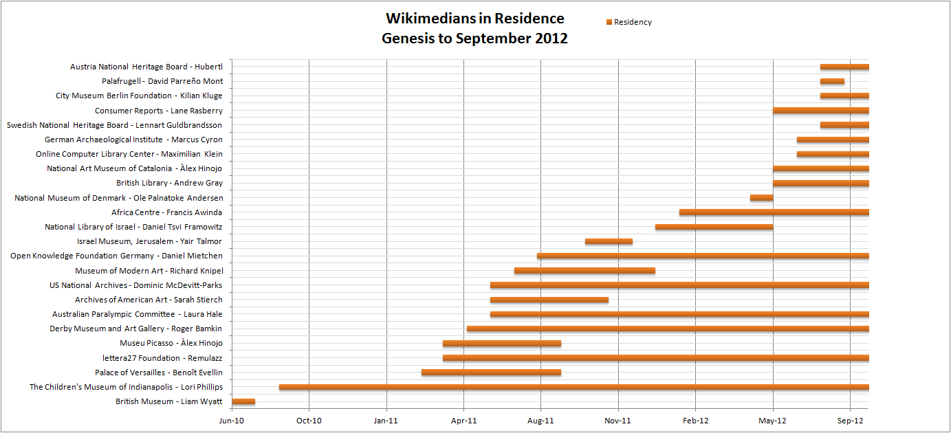 A graph showing the length of Wikipedians in Residence's terms.